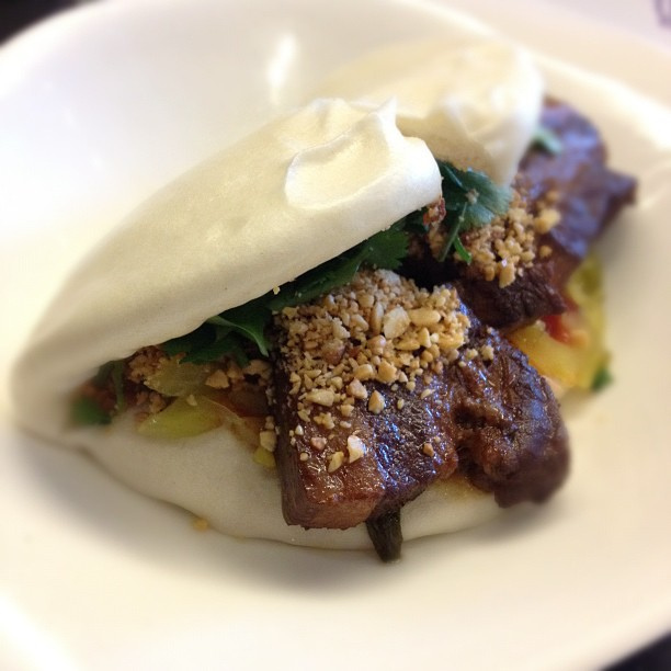 Steamed Sandwich,taken by LeoAlmighty中文（中国大陆）: 由LeoAlmighty所拍摄的刈包